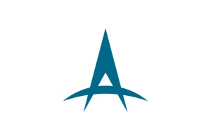 Flag of Awaji Hyogo